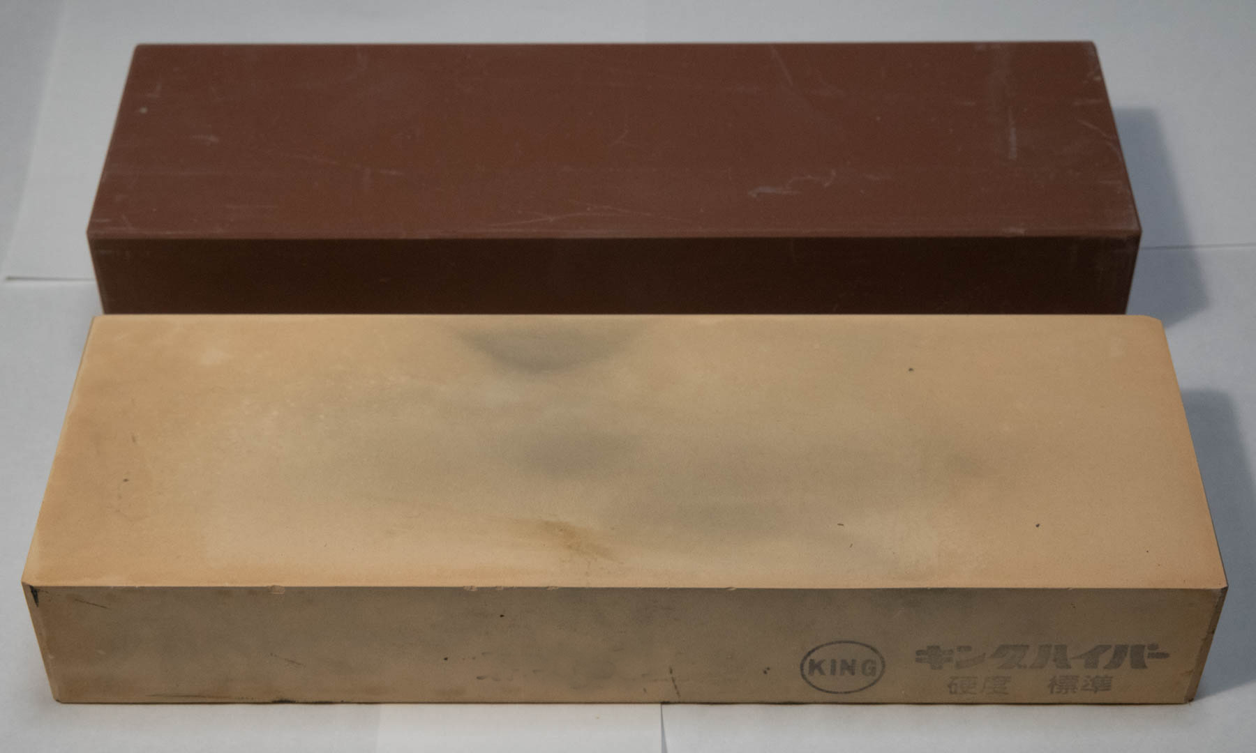 Examples of sharpening stones by vitrified method